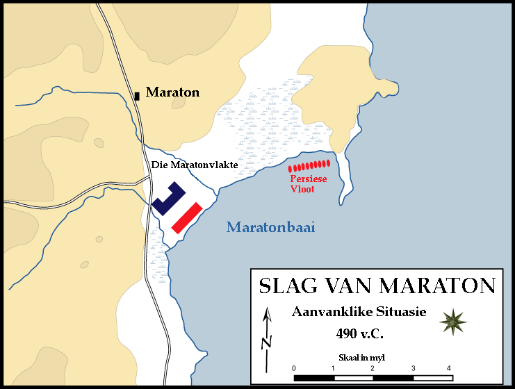 Map depicting the initial phase of the Battle of Marathon with Afrikaans legend